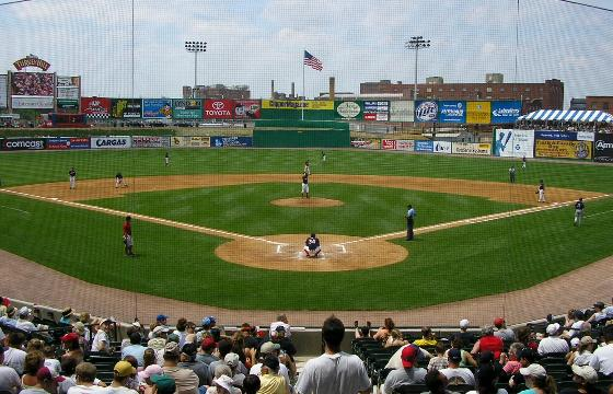 User:JaMikePA